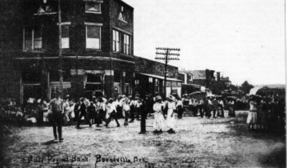 Early 1900s parade on Main Street in Booneville, Arkansas.